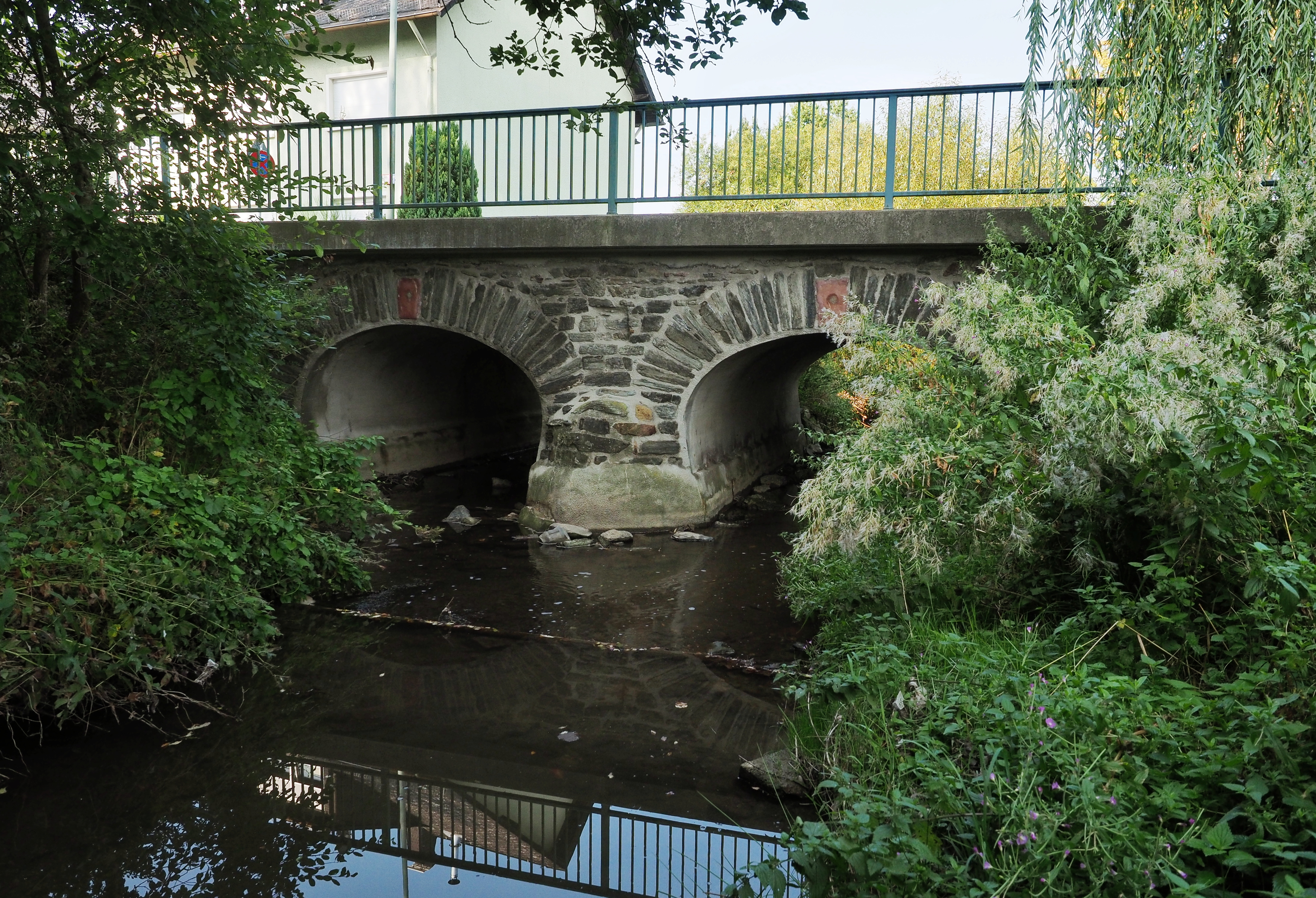 Klosterbrücke ("Abbey Bridge"), Bleidenstadt, Germany